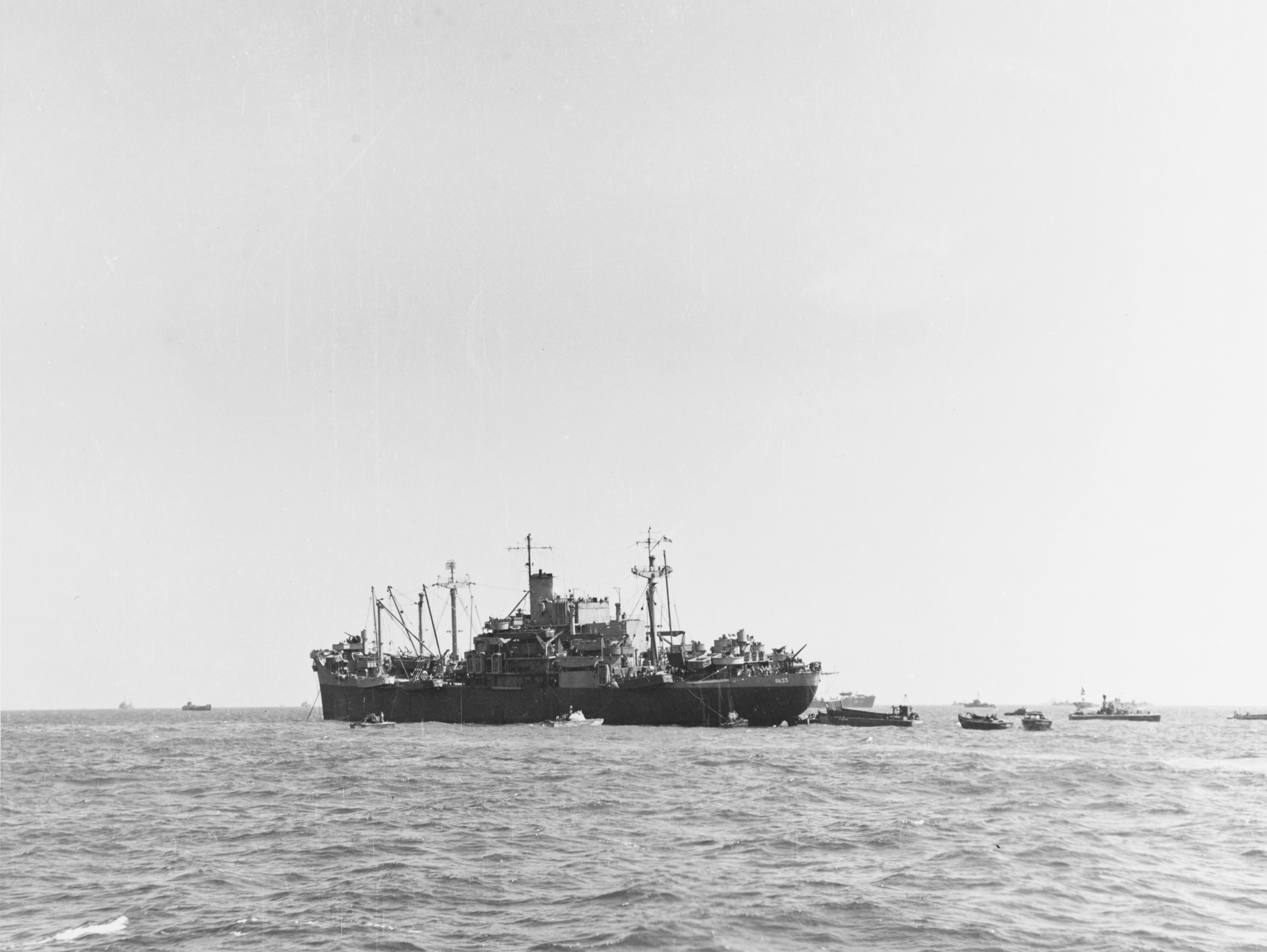 The U.S. Navy attack transport USS Bayfield (APA-33), flagship for the "Utah" Beach landings, loading landing craft on "D-Day", 6 June 1944.